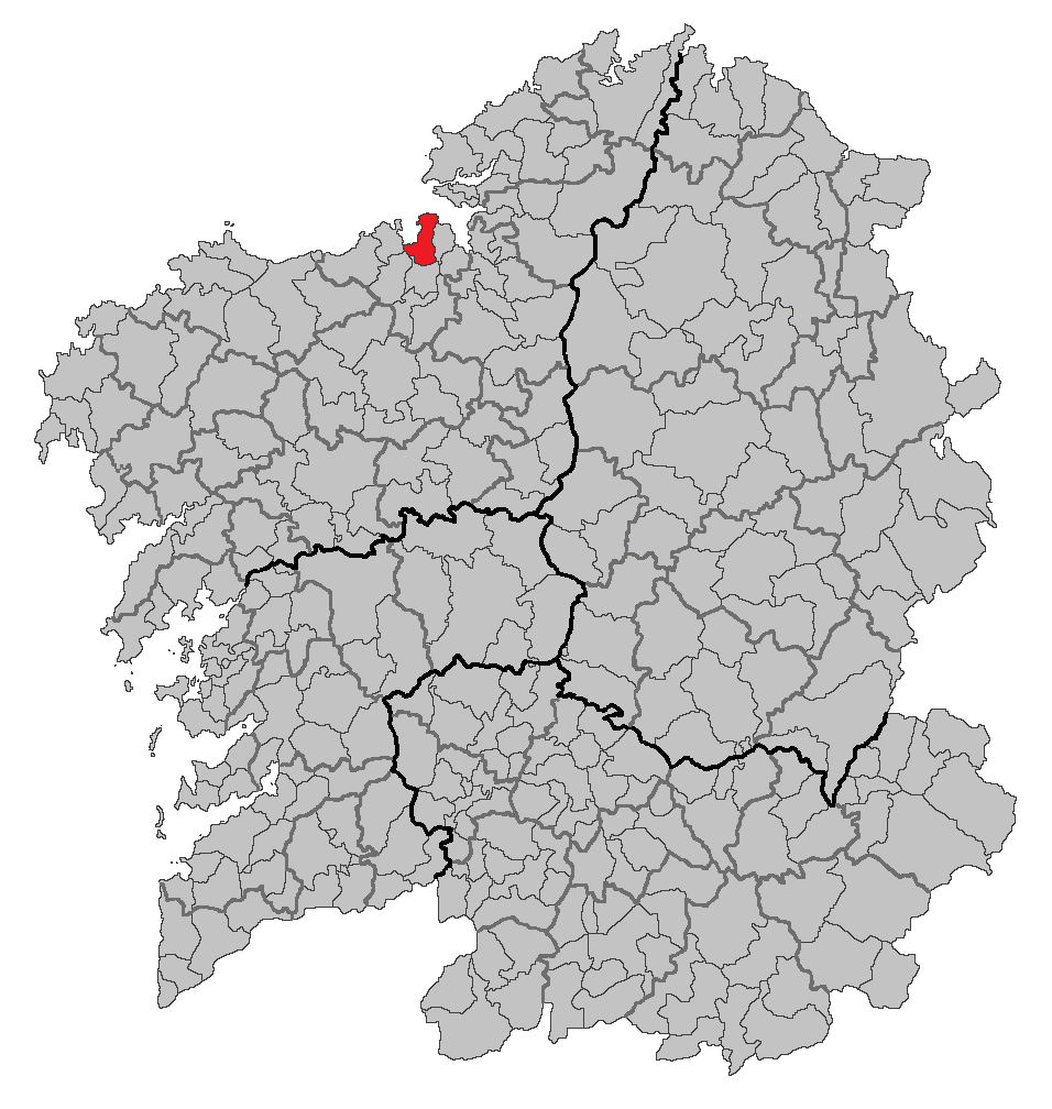 Location map of Oleiros, A Coruña, Galicia